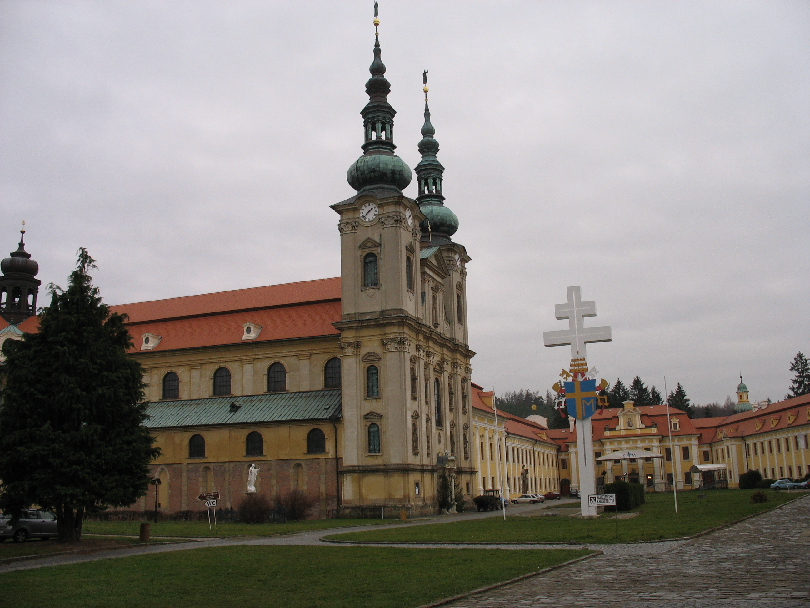 Velehrad in Moravia